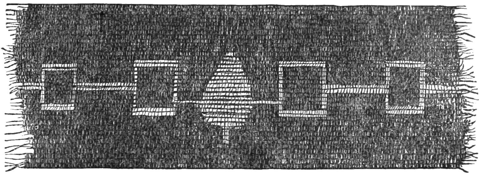 Wampum belt commemorating the Iroquois Confederacy